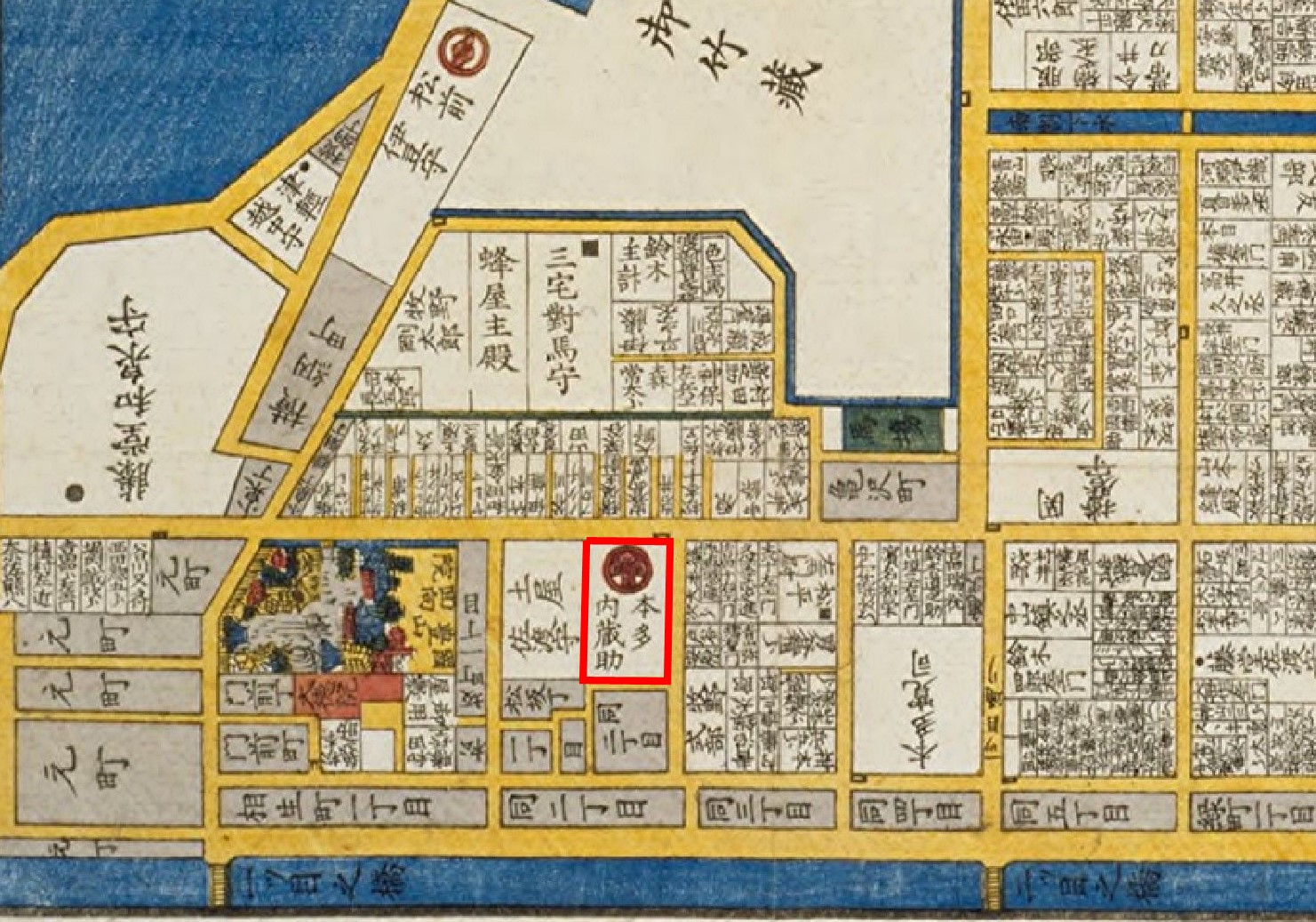 Residence Honda f clan at Edo